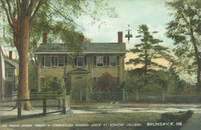 The house where Henry Wadsworth Longfellow roomed while at Bowdoin College, Brunswick, Maine